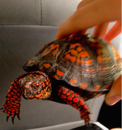 Common box turtle (Terrapene carolina) observed at Butcher Holler in Van Lear, KY. 2014.